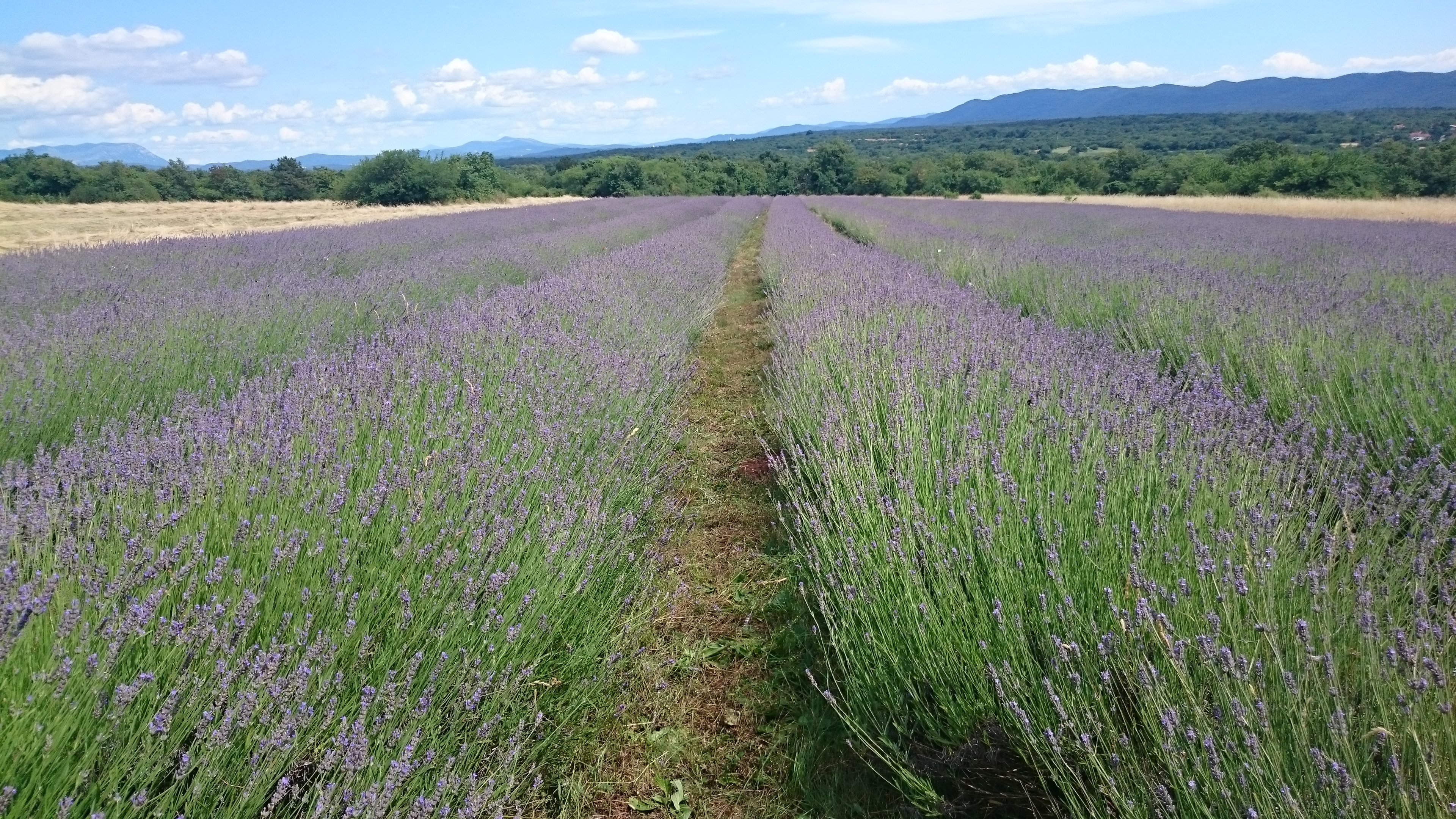 Lavandula - Karst, Slovenia